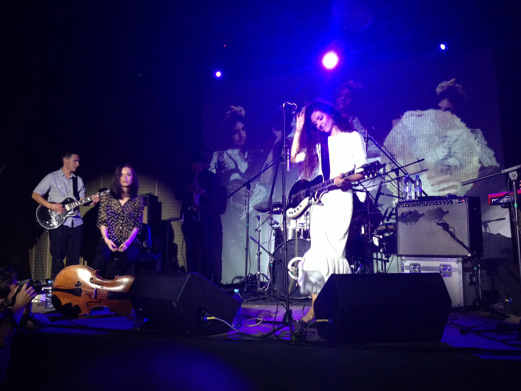 Sophie Villy in Younost